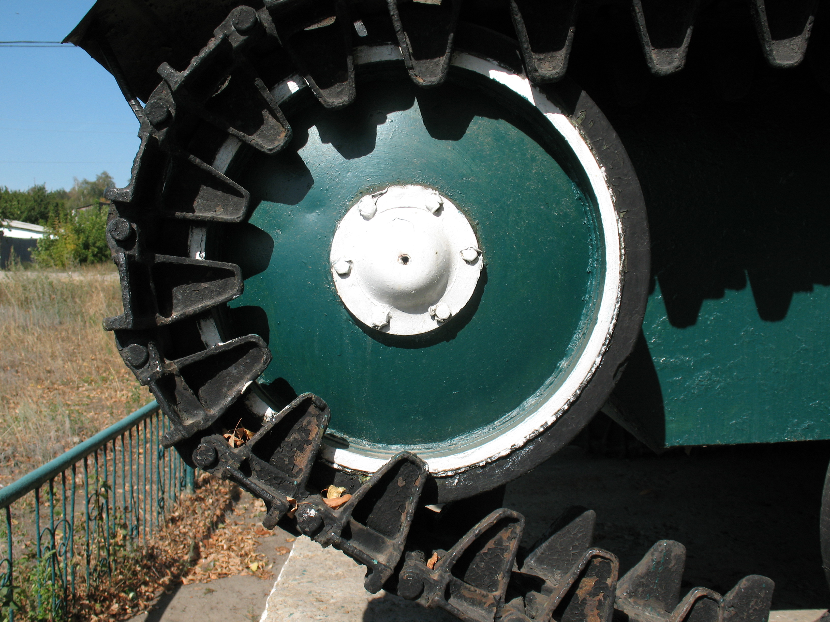 T-70М Soviet WWII tank. Monument in Solonitsevka.